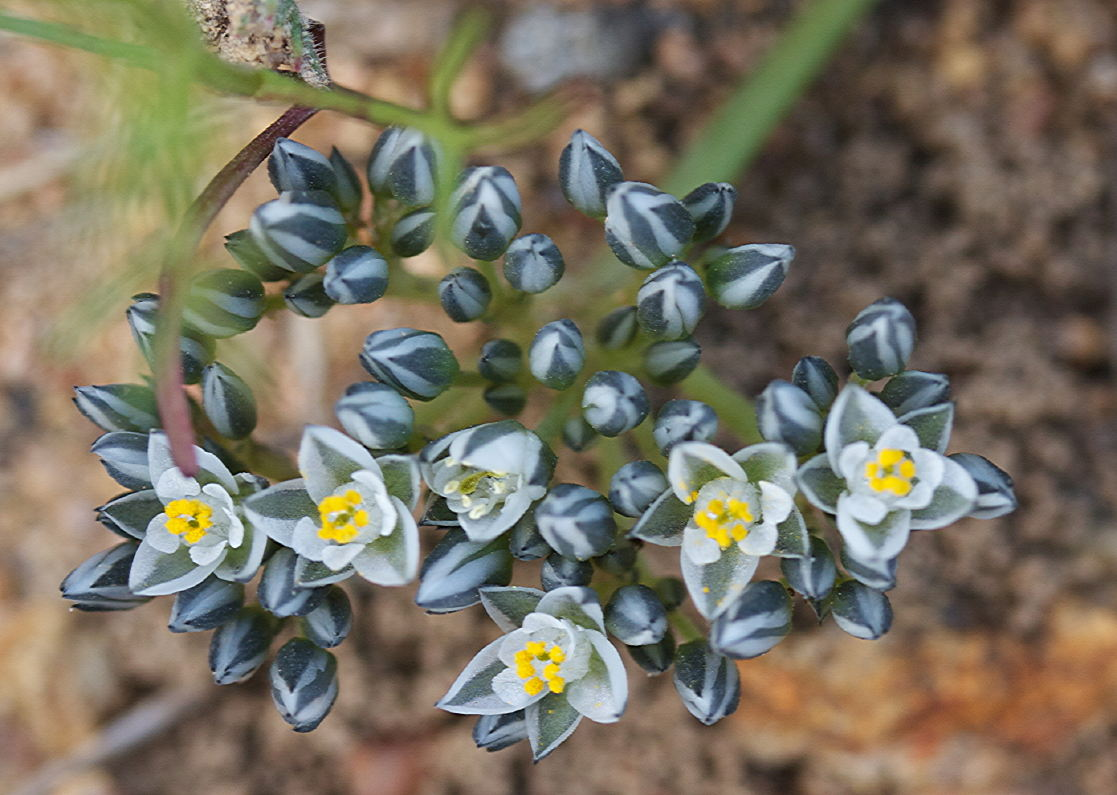 in the Goegap Nature Preserve, just east of Springbok